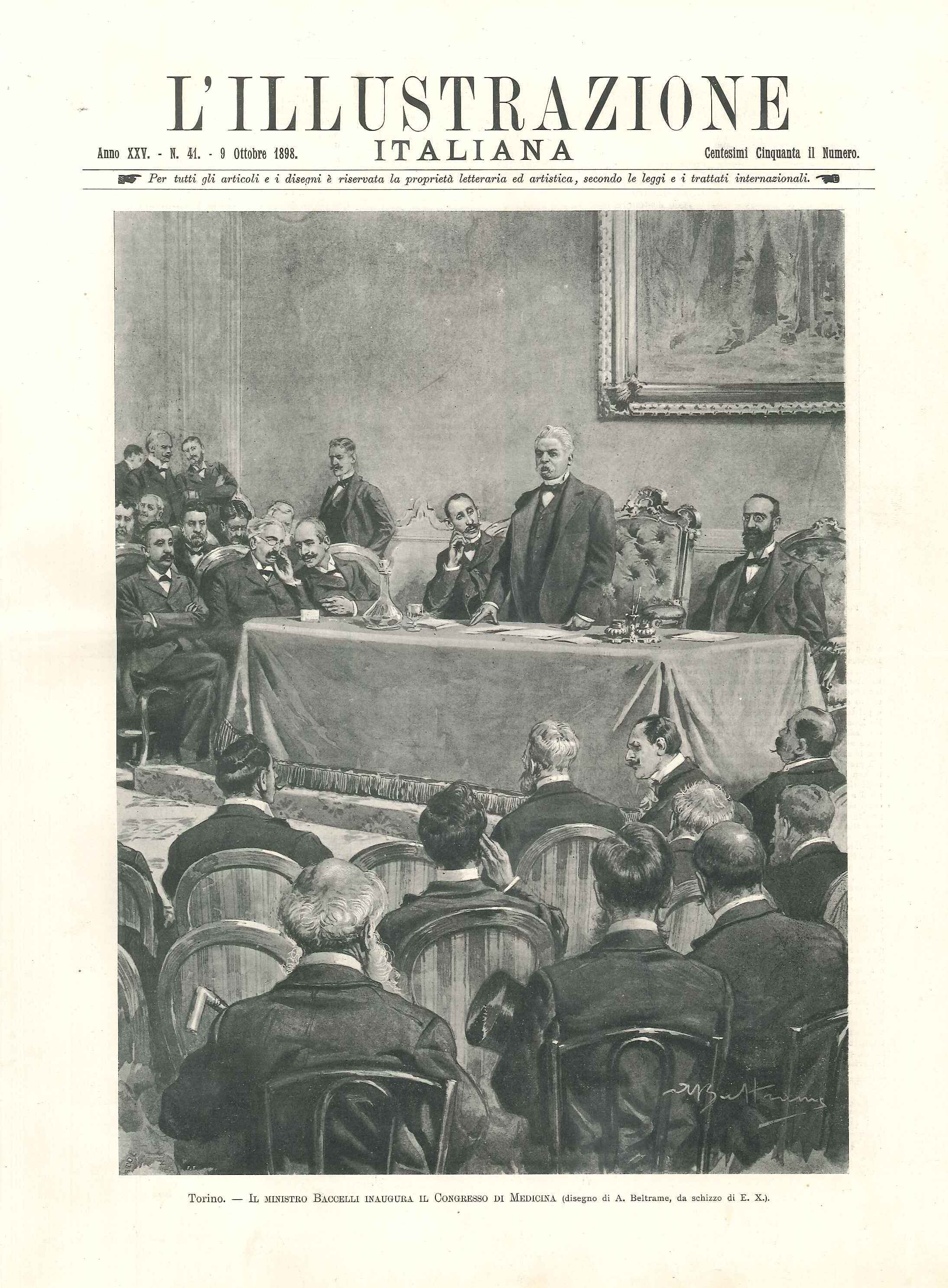 Minister Baccelli opens the Congress of Medicine in Turin (1898), from illustrated magazine L'Illustrazione italiana, 1898